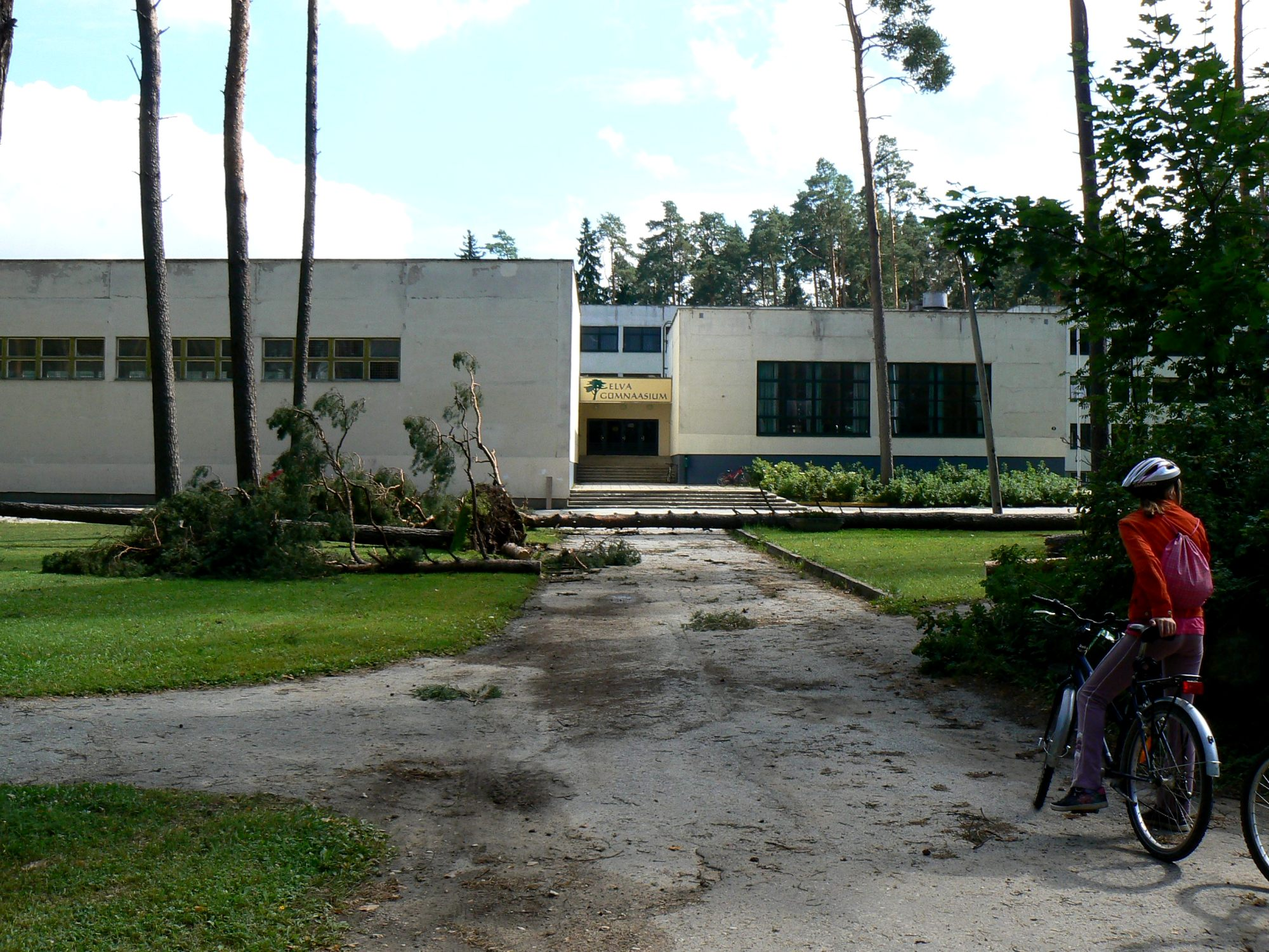 Entrance into Elva gymnasium after 8 august thunderstorm 2010, in Estonia